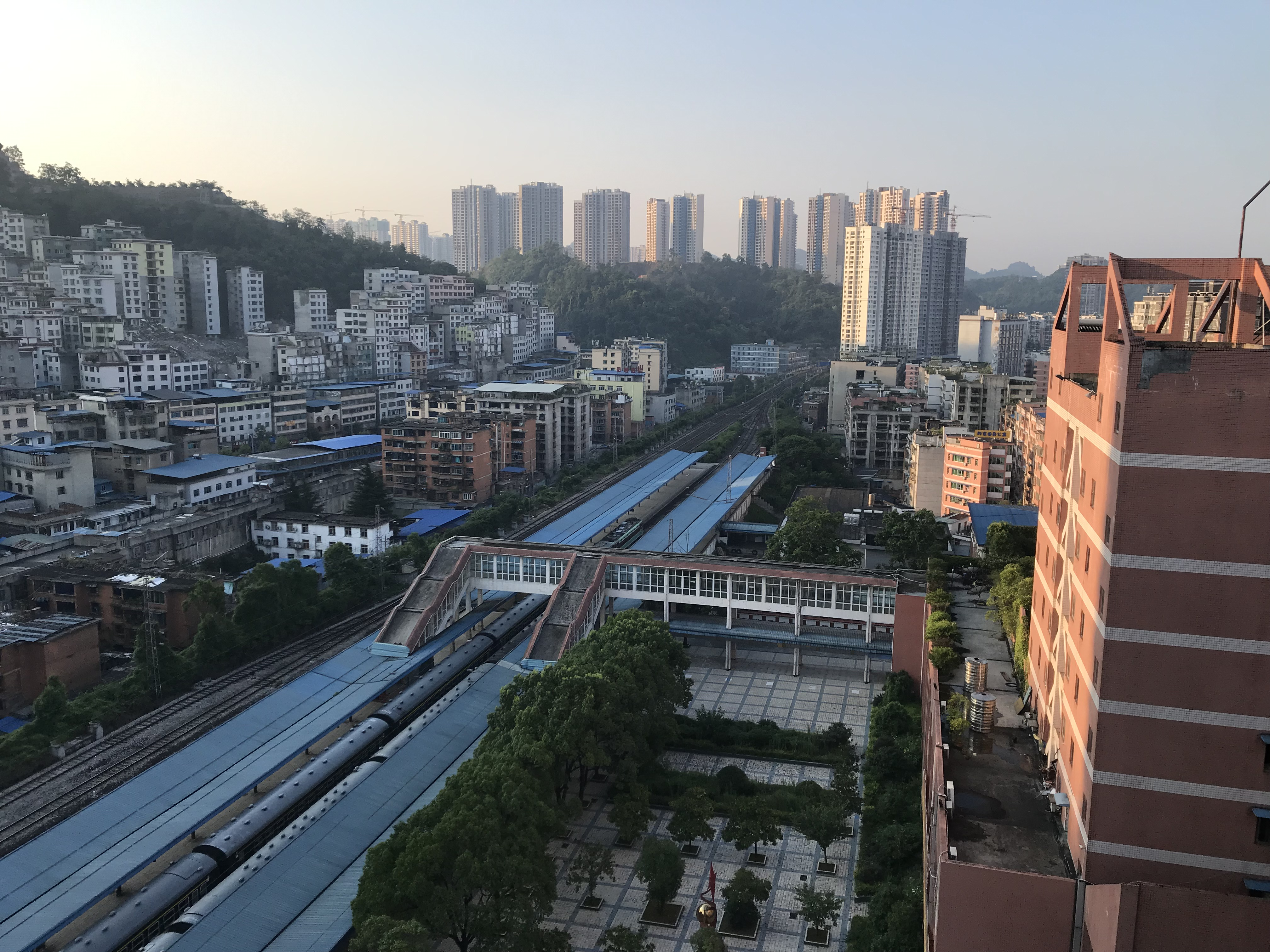 Which will end the operation very soon.